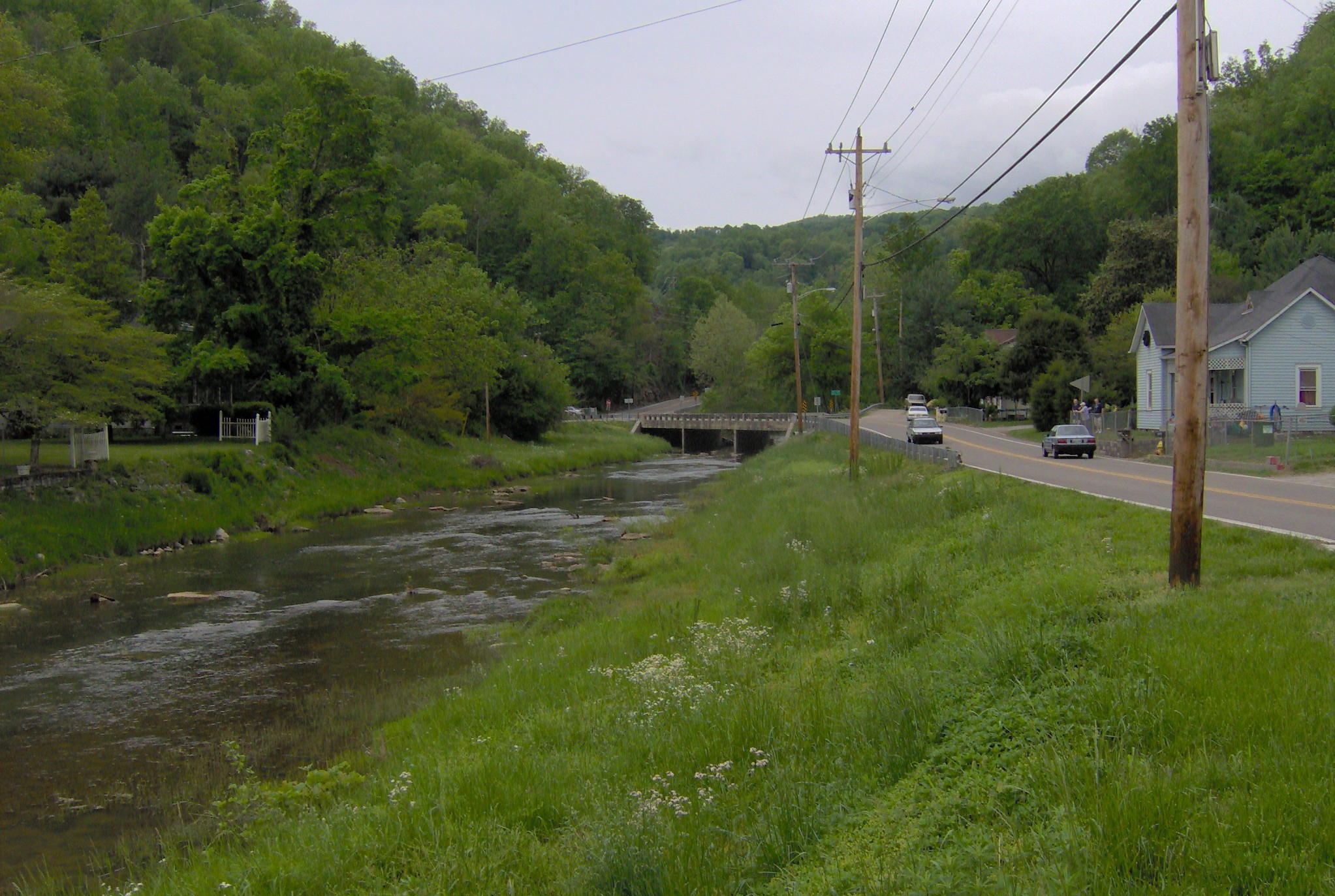 Coal Creek emerging from its Walden Ridge water gap in Lake City, Tennessee, USA. The creek flows down from its source at the edge of the Cumberland Mountains and empties into the Clinch River just beyond Lake City. Tennessee State Highway 116 (Fraterville Miners' Memorial Highway), which connects Lake City and Briceville, is on the right.